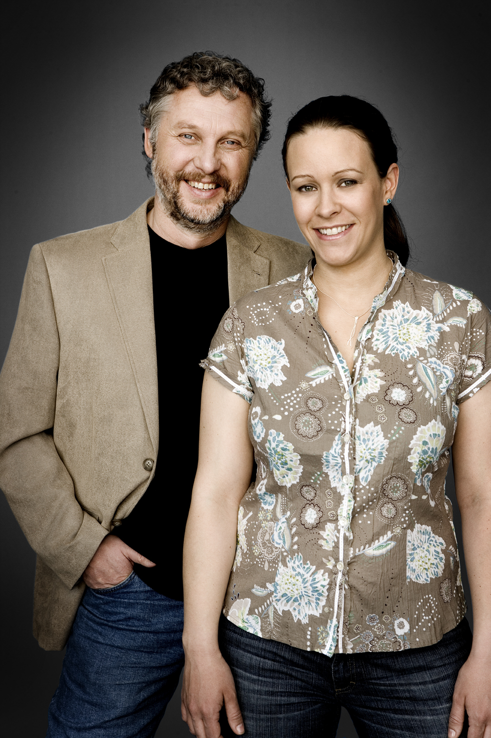 The Swedish Greens spokespersons Peter Eriksson and Maria Wetterstrand